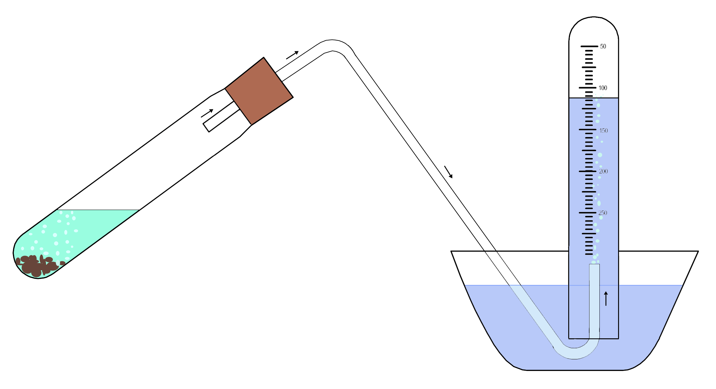 Scheme of eudiometre